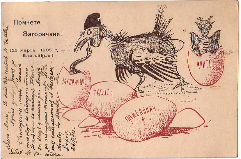 Postcard "Remember Zagorichani" (greek andarts killed over 100 men, women and children)